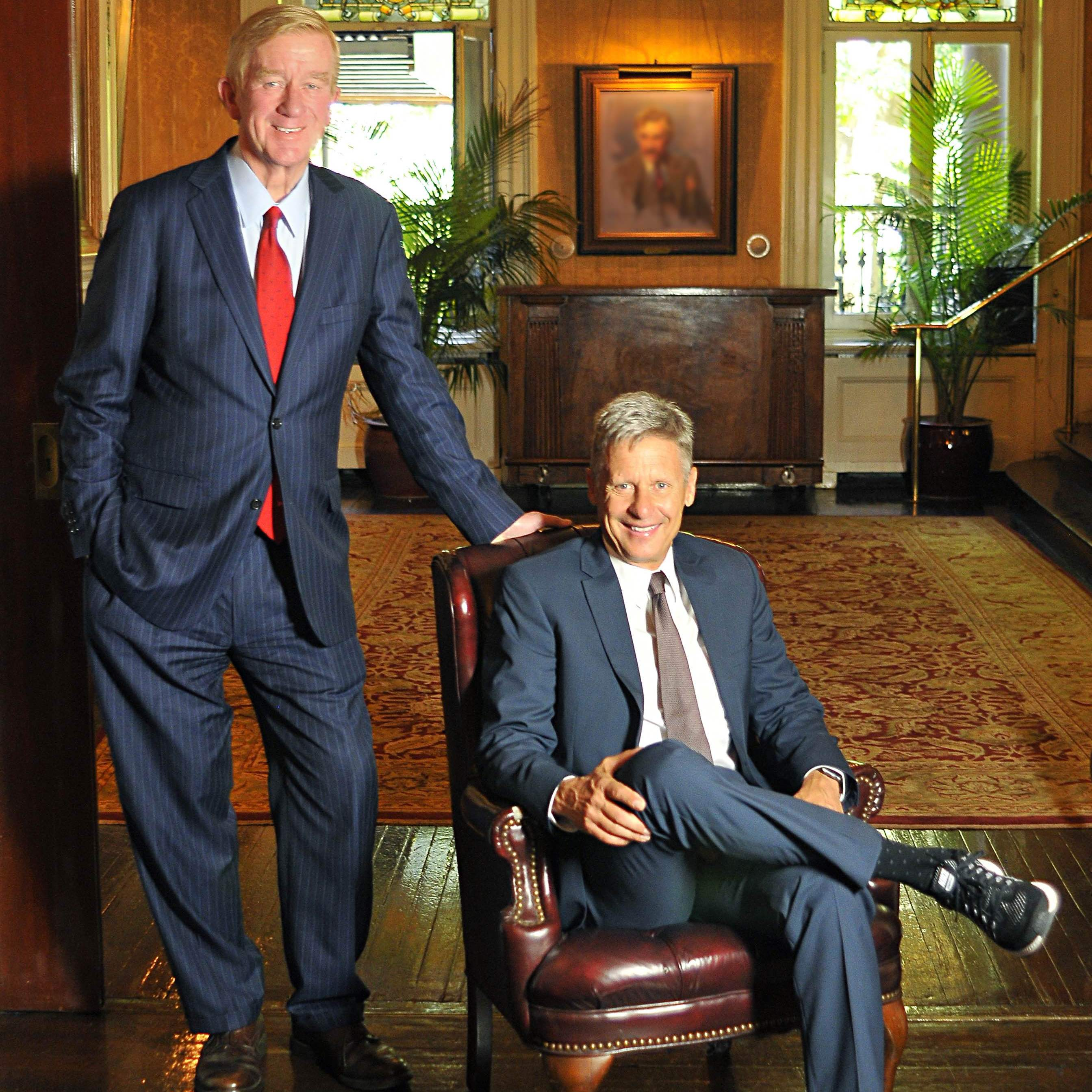 Gary Johnson and William Weld taking a campaign image inside of a house